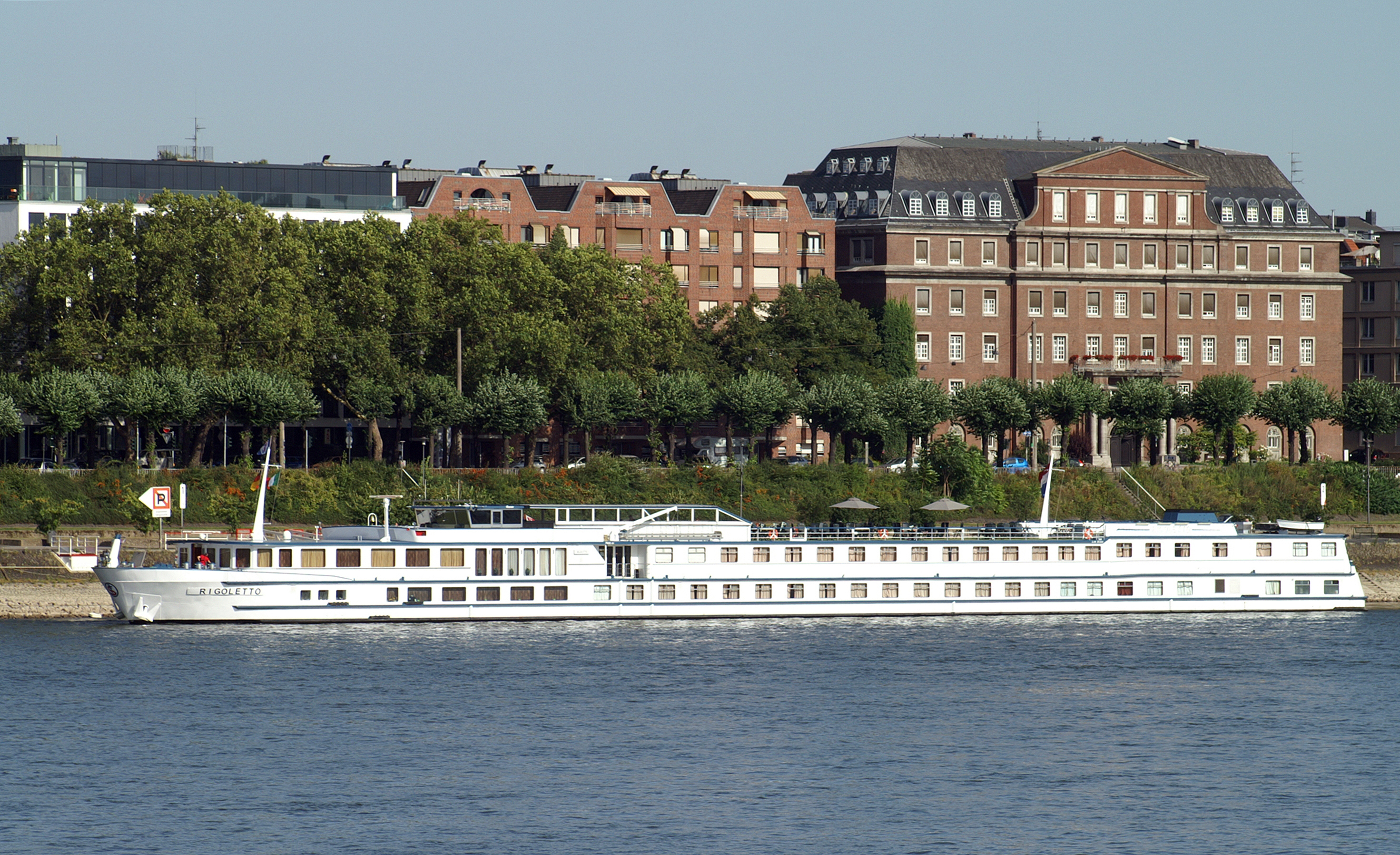 River cruise ship Rigoletto in cologne.